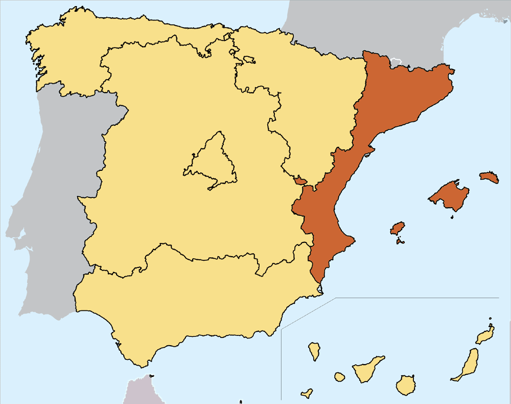 NUTS-1 code ES5, Eastern Spain, (Catalonia, Valencia, and Balearic Islands). Based on Image:Autonomous_communities_of_Spain.svg, Image:Portugal_NUTS_II.svg, Image:France_blank.svg, and Image:Mo-map.png.